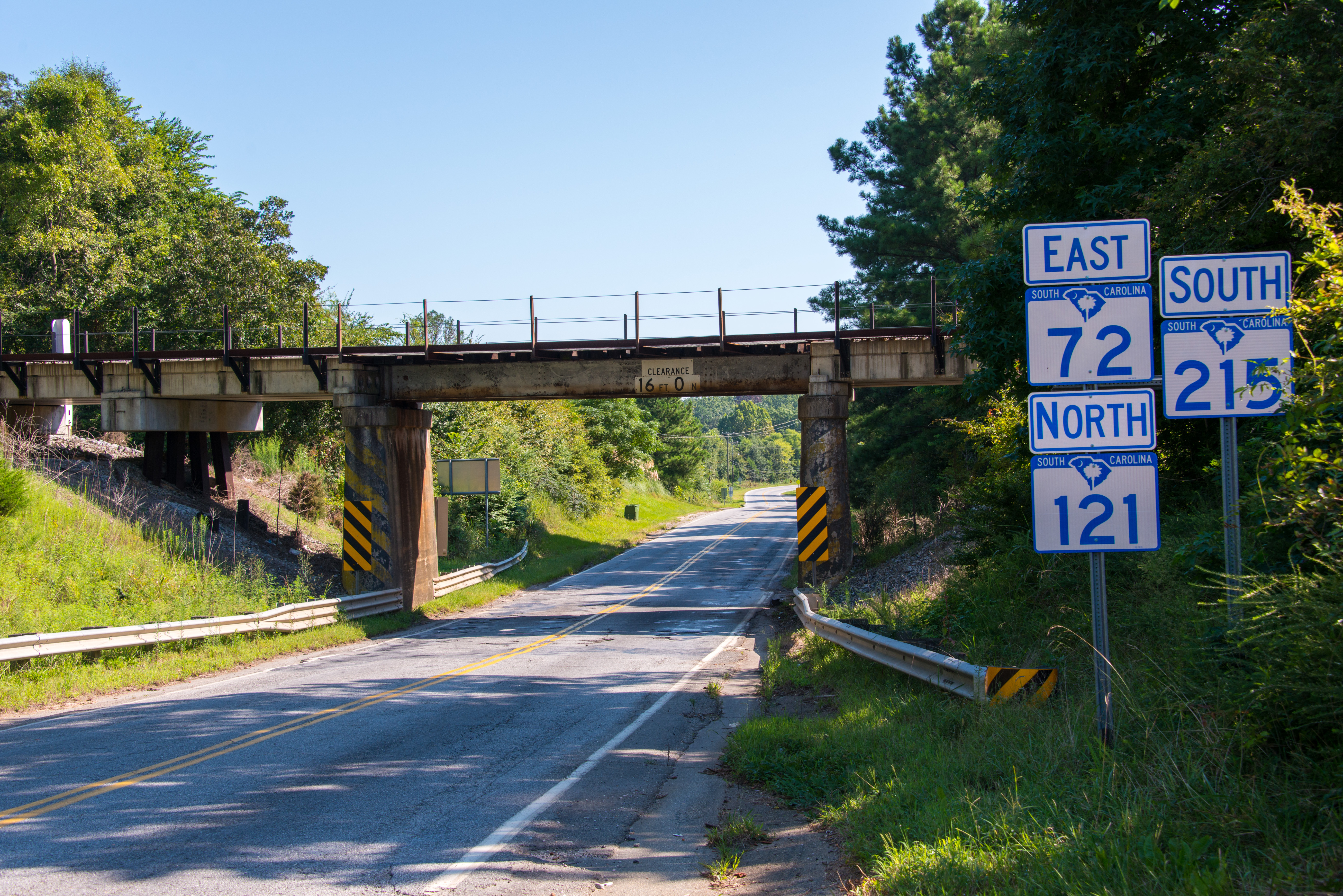 South Carolina Highways 72, 121 and 215 in Carlisle, South Carolina.